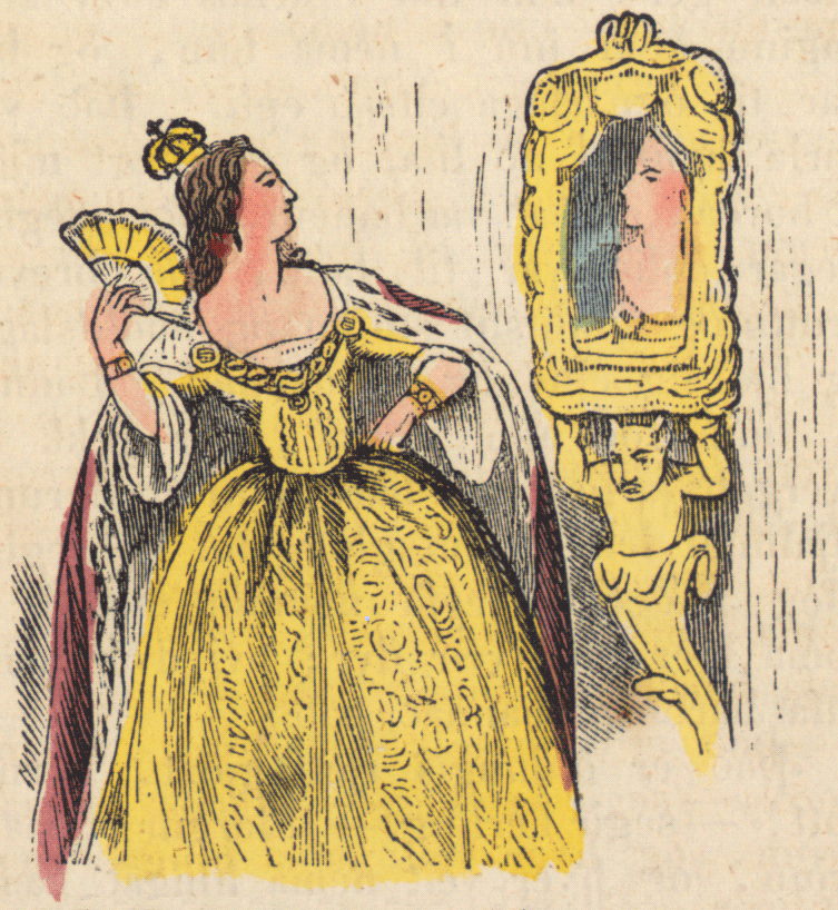 An illustration from page 21 of Mjallhvít (Snow White) an 1852 icelandic translation of the Grimm-version fairytale.